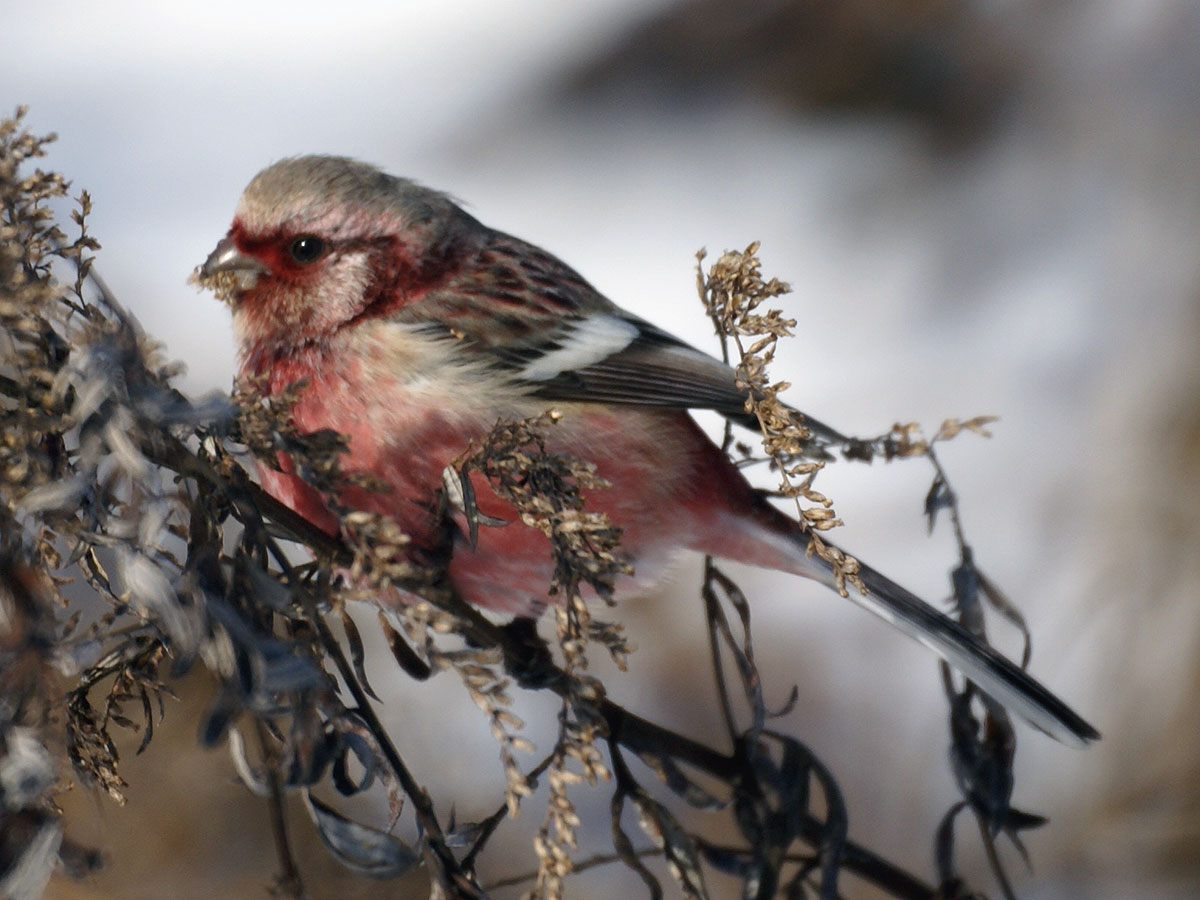 Uragus sibiricus